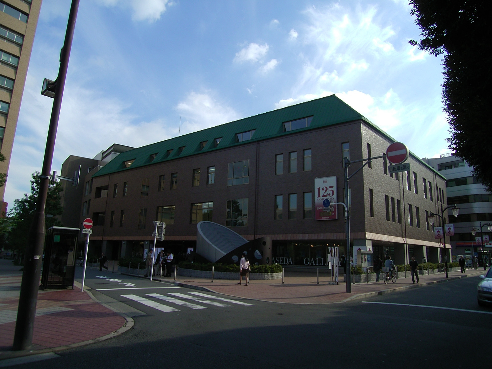 “Ono memorial lecture hall” Waseda University “Ono memorial lecture hall” Waseda University address = 1-6-1, Nishiwaseda, Shinjuku-ku, Tokyo